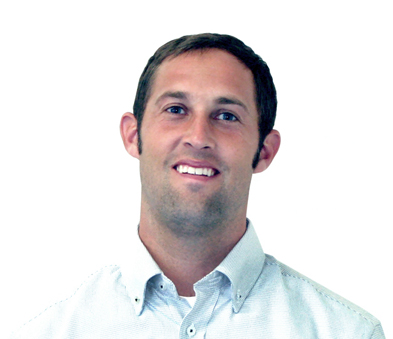 CEO and Co-Founder of Hitcents